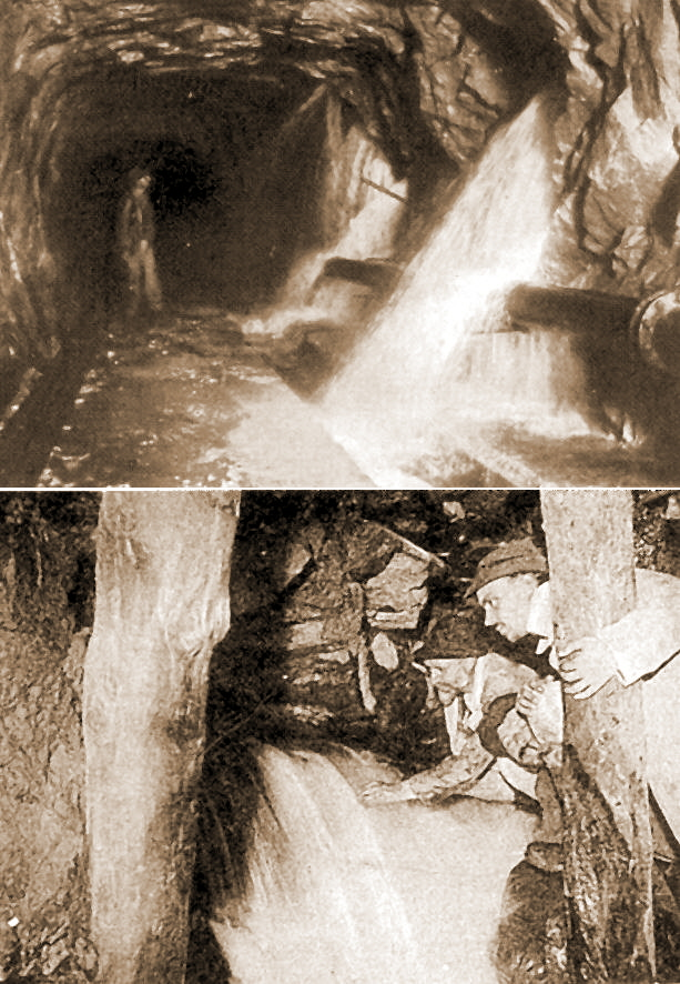 Simplon tunnel - ground water, water leak